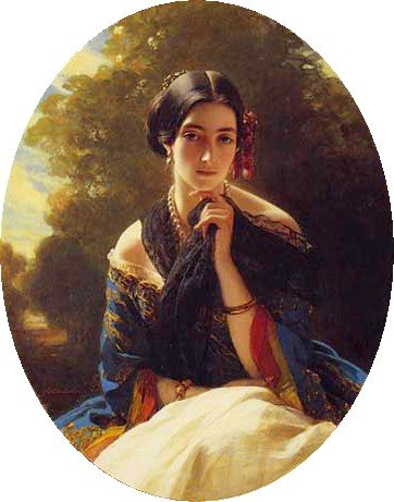 Princess Leonilla of Sayn-Wittegenstein-Sayn.